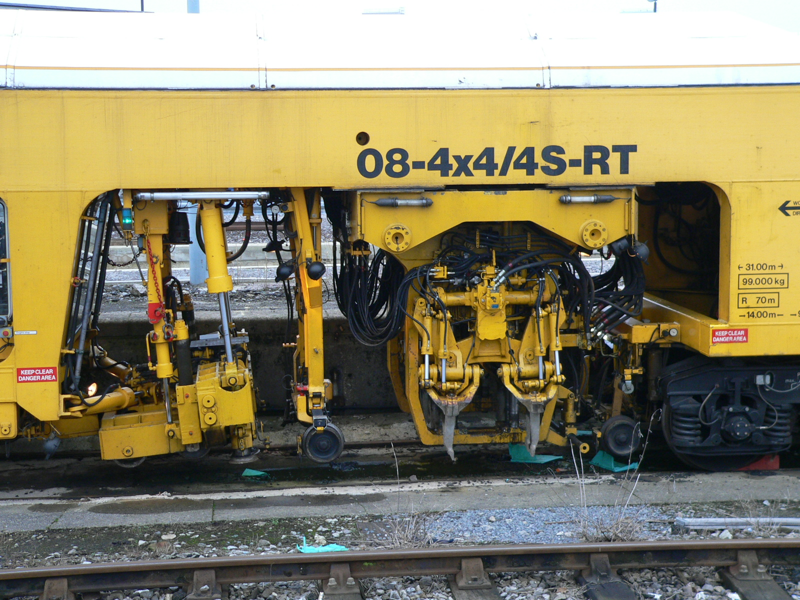 A closeup of the business area of Carillion operated Plasser & Theurer 08-4x4/4S-RT Unimat 08-RT Tamper 73909 Saturn, photographed when it was parked on sidings at the southern end of Bristol Temple Meads station.